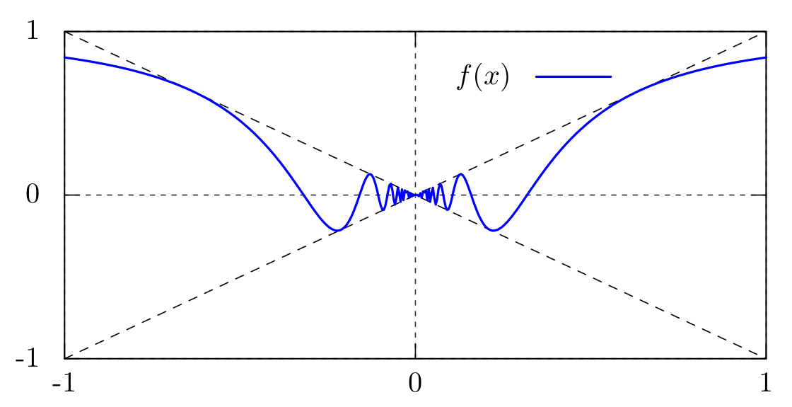 Graphic representation of the function x sin(1/x)